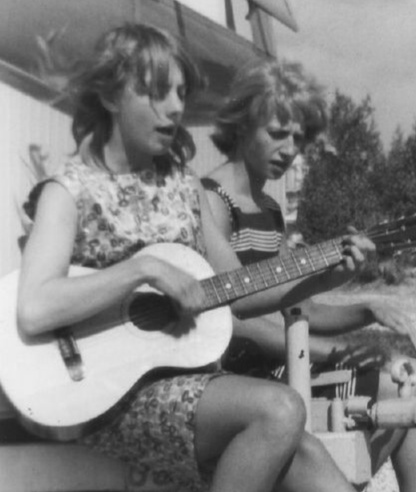 Wendy Hoile and Linda Hoyle (née Hoile) playing and singing c. 1961